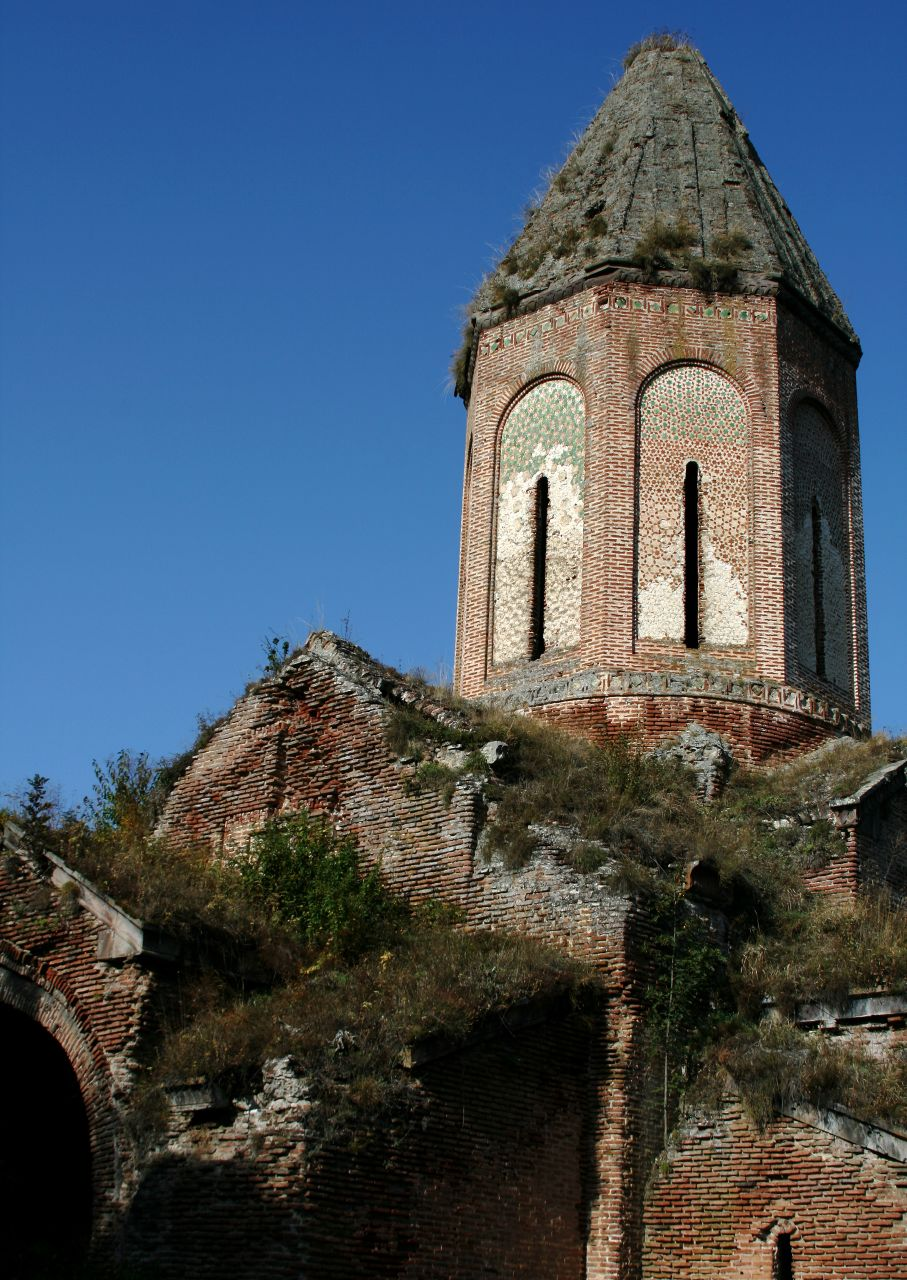 The 8th century Armenian monastery called Kirants in the Tavush Province of Armenia.